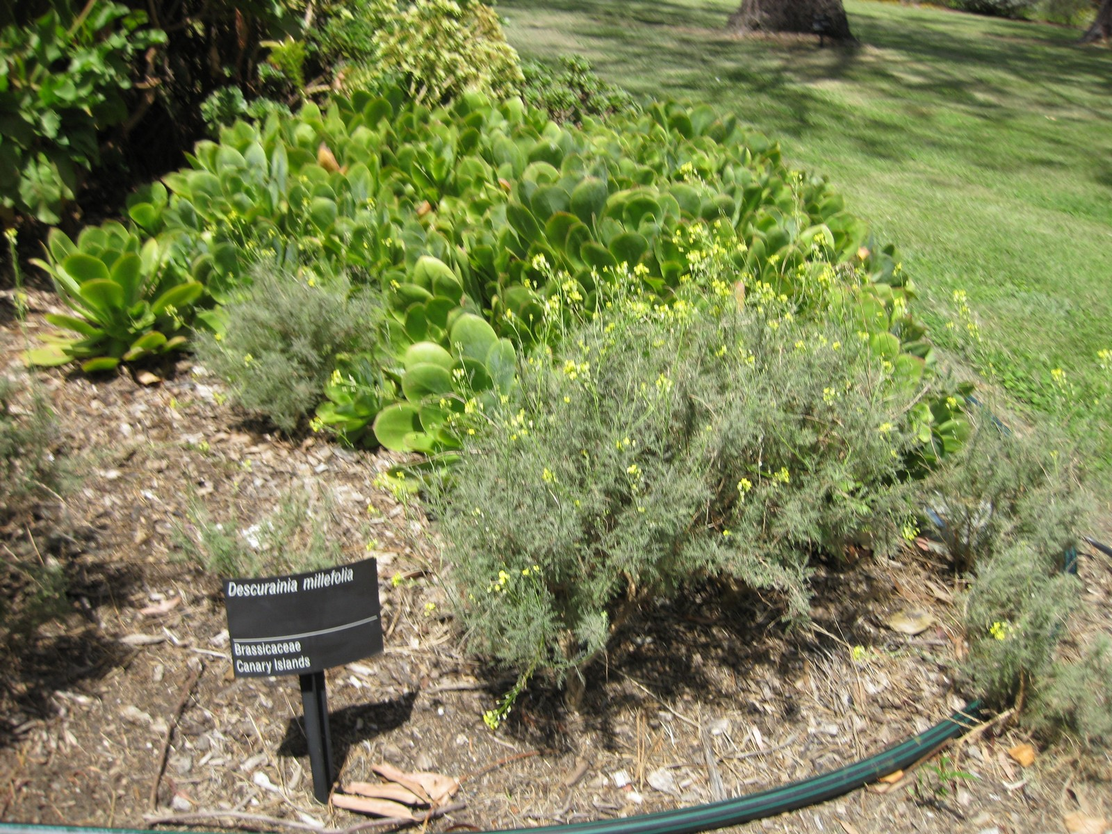 Photographed at the Royal Botanic Gardens Melbourne (Australia) in December